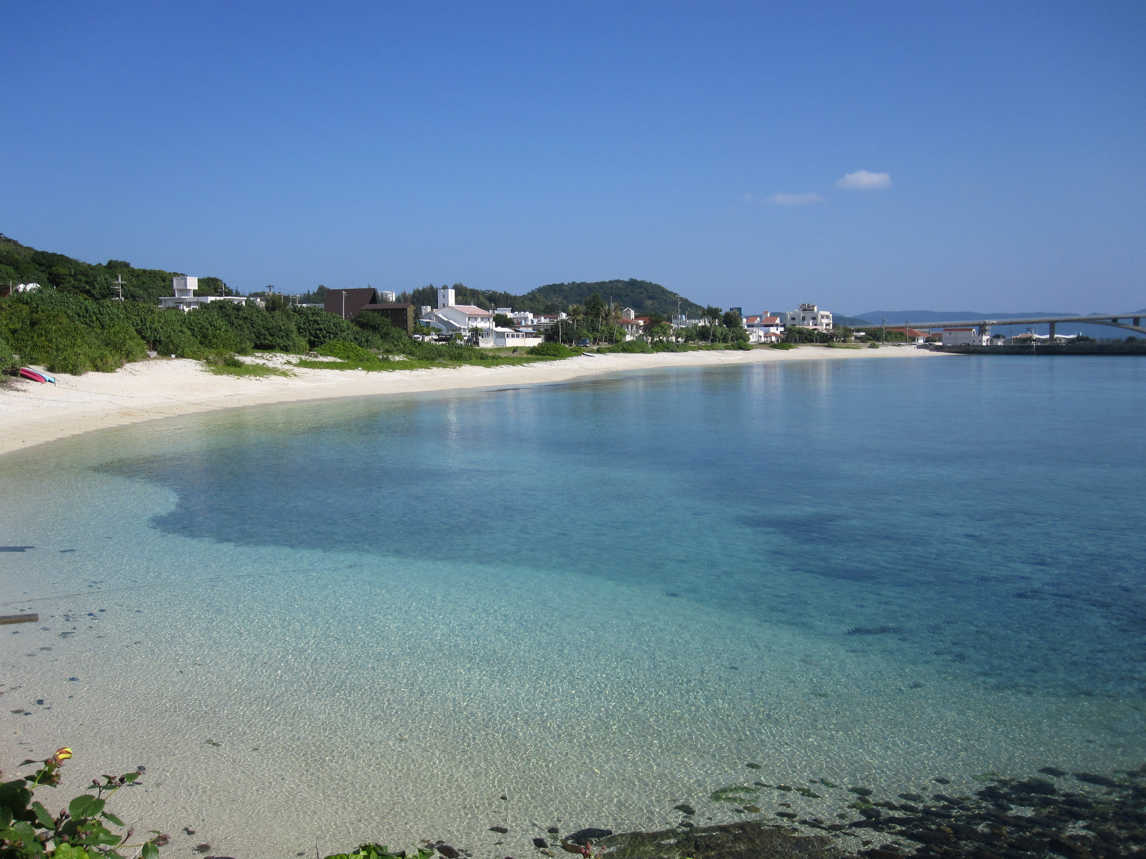 Aka beach and Aka village